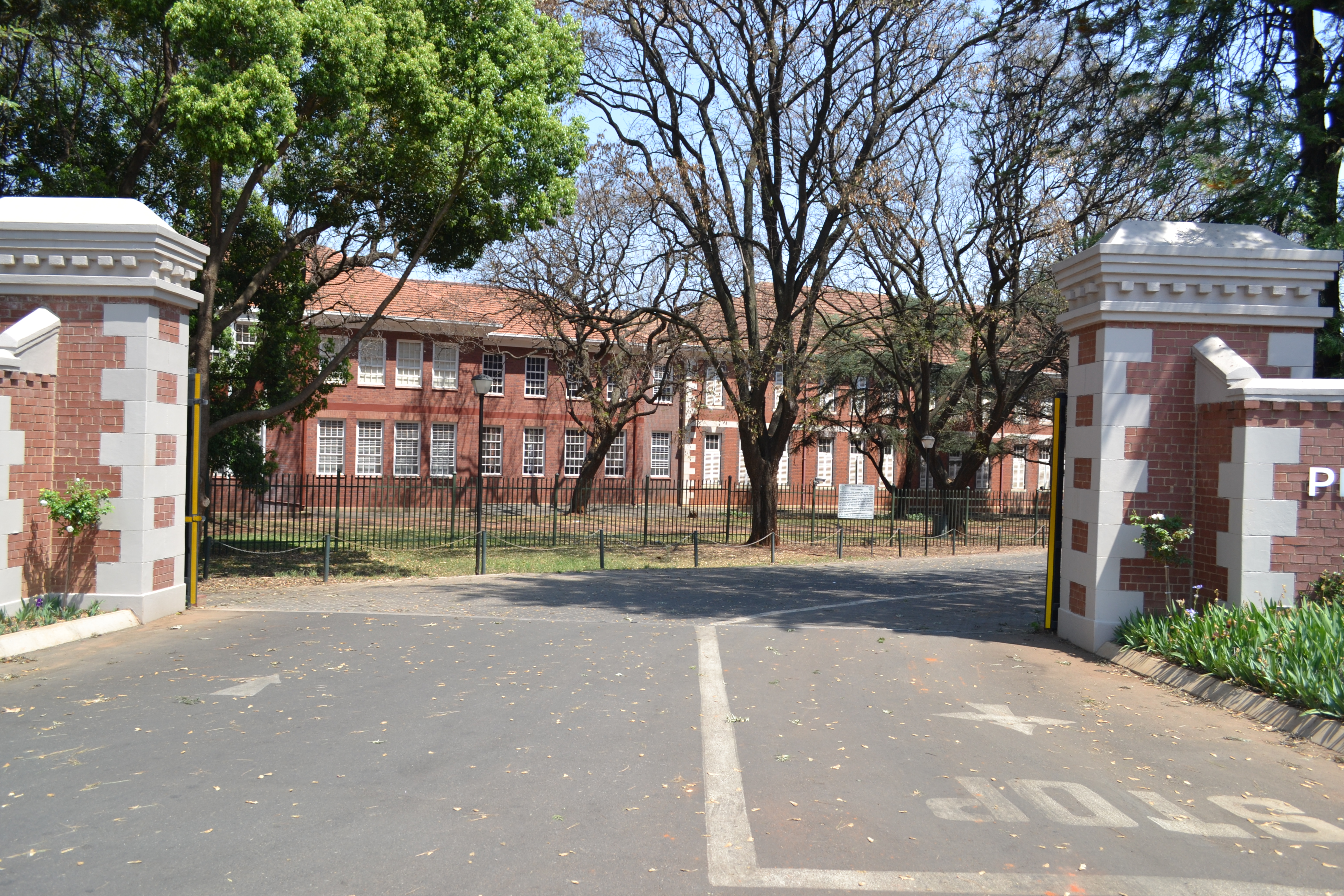 Pretoria High School for Girls Park Street Pretoria This media shows a South African Protected Site with SAHRA file reference 9/2/258/0065 .